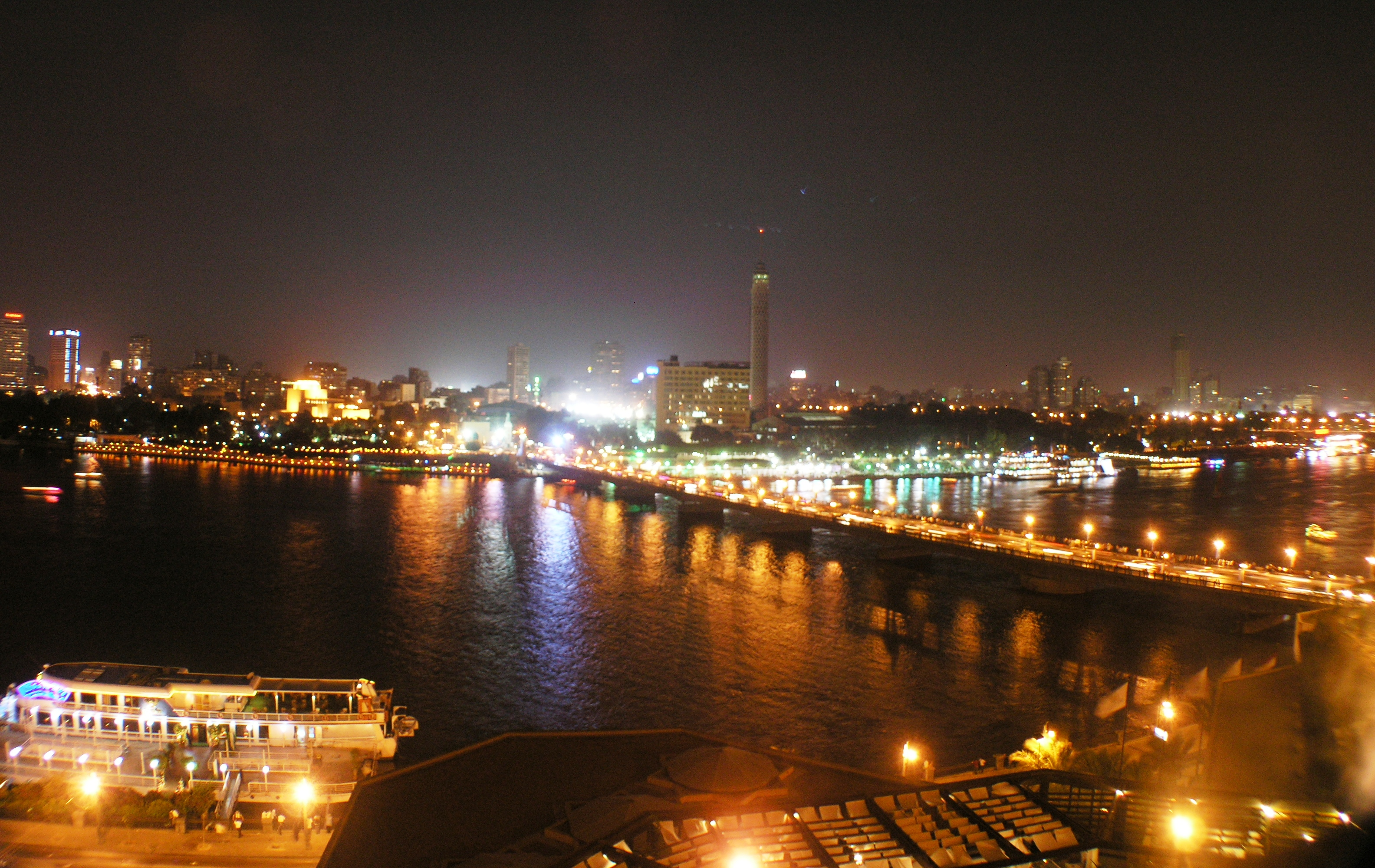 Cairo - Nile view from 10th floor of Semiramis InterContinental Hotel Cairo